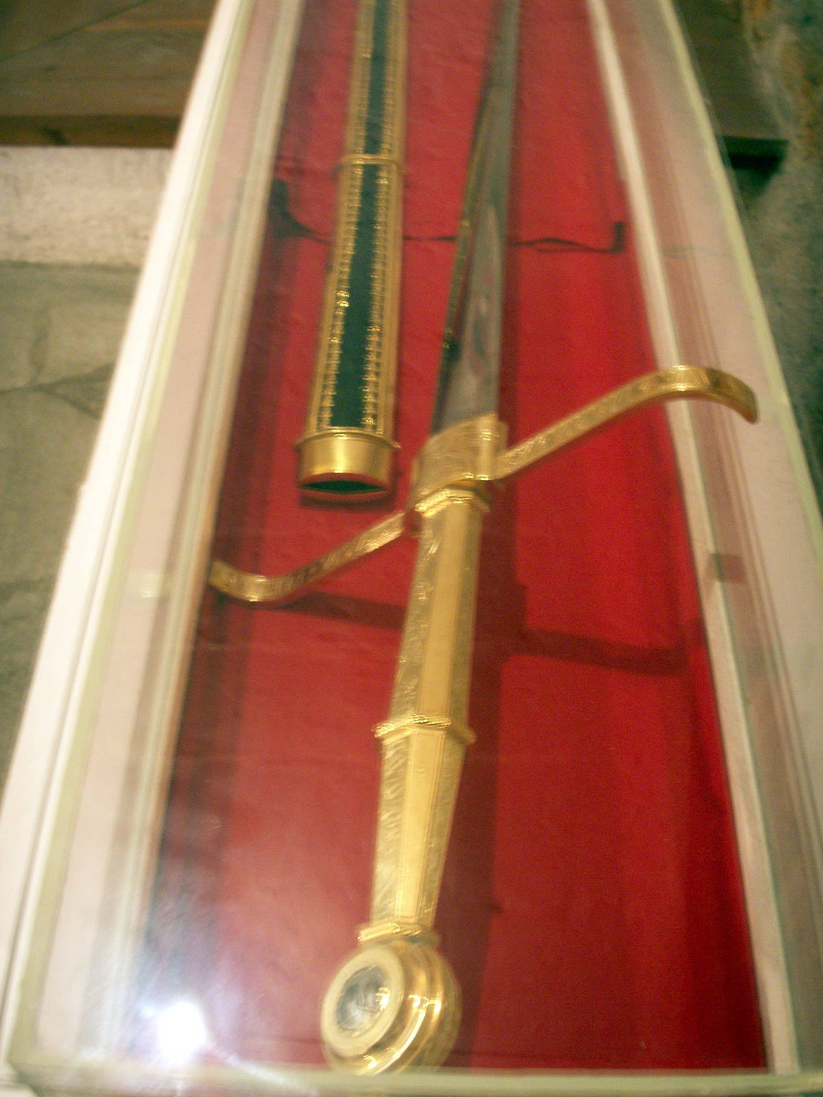 Sword (copy) in Millstatt Abbey / district Spittal an der Drau in Carinthia / Austria / EU.